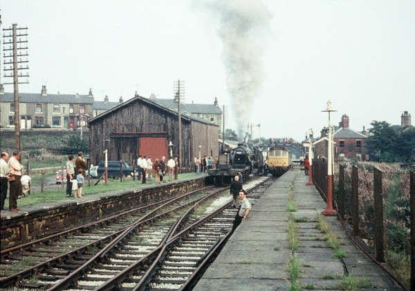 Helmshore railway station viewed from the north in 1970 during use by the East Lancashire Railway Preservation Society. Wooden goods depot at left centre, main station buildings at right centre. The diesel loco is in what was the Accrington-bound platform.